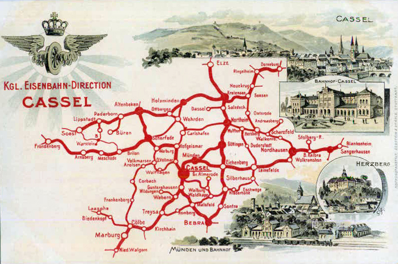 Map of the railways around Kassel